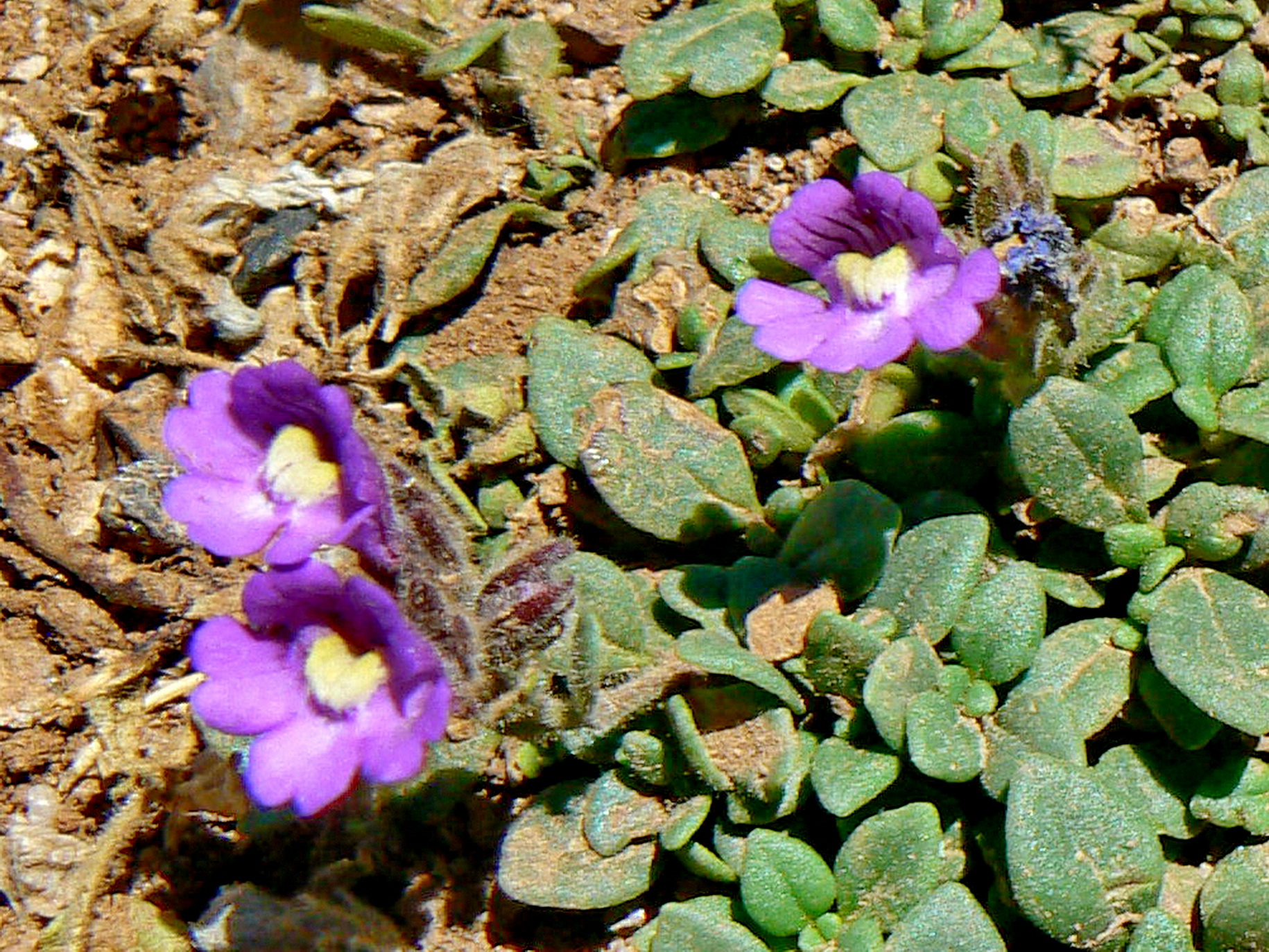 Chaenorhinum origanifolium, Picos de Europa, Spain. Detail of flower